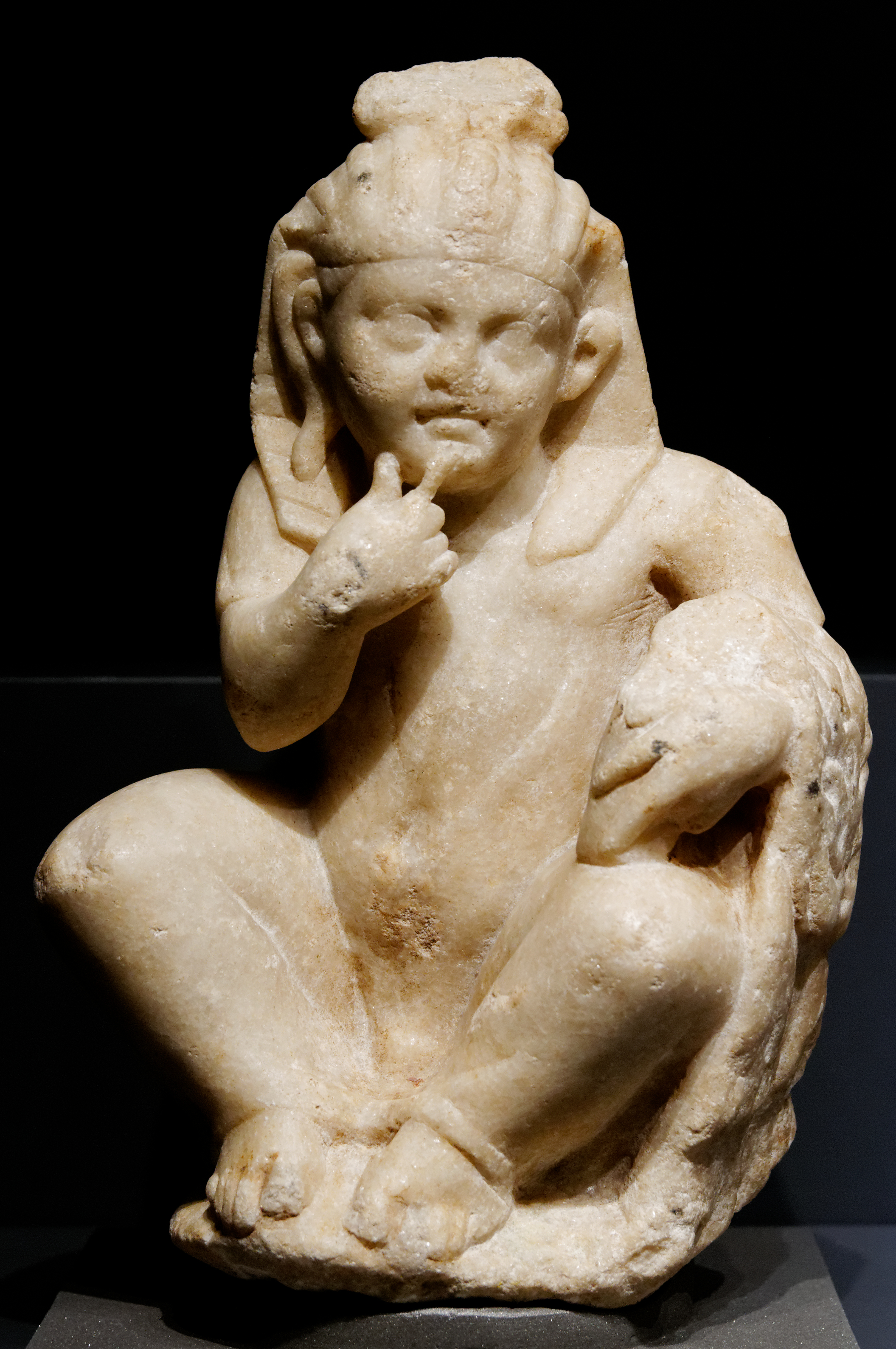 Statuette of Harpocrates-Somtus wearing the nemes, with a lion-skin and a club.